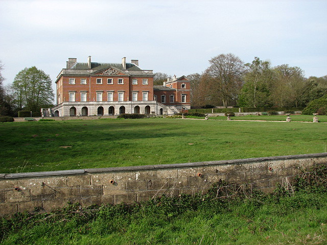 Wolterton Hall and front garden Viewed across the ha-ha, forming the southern boundary between Wolterton Park and the Hall. A ha-ha is a dry ditch or trench with a fence, wall or hedge running along its bottom or side, forming the boundary to a garden or park. It is designed so as not to interrupt the view, and to be invisible until closely approached. The originator of the ha-ha is believed to be the English garden designer Charles Bridgeman (1690-1738). The waymarked public footpaths and permissive paths traversing Wolterton Park cover more than 20 miles; they lead around Wolterton and neighbouring Mannington, some connecting with the Weavers Way long distance footpath and the Holt circular walk. There also is an orienteering course and adventure playground.